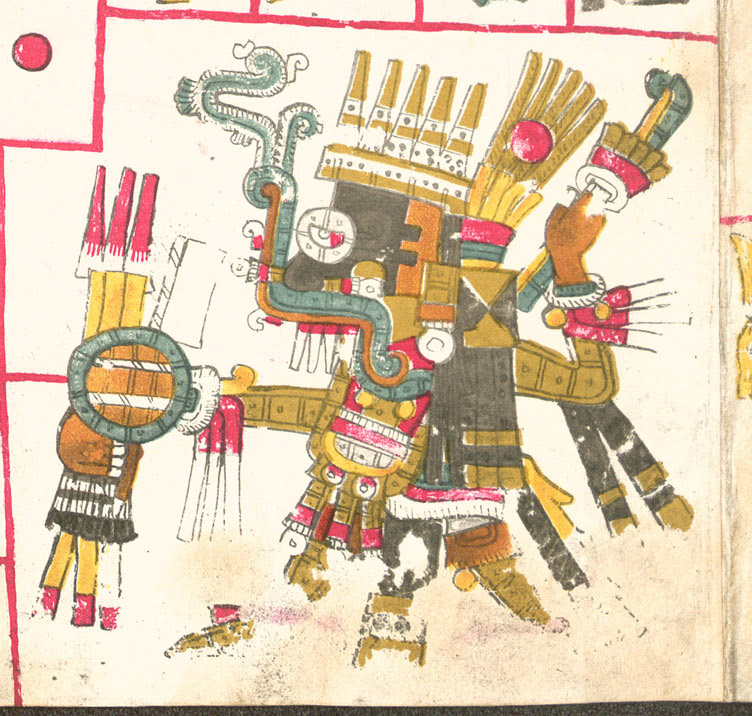 A drawing of Tlaloc, one of the deities described in the Codex Borgia